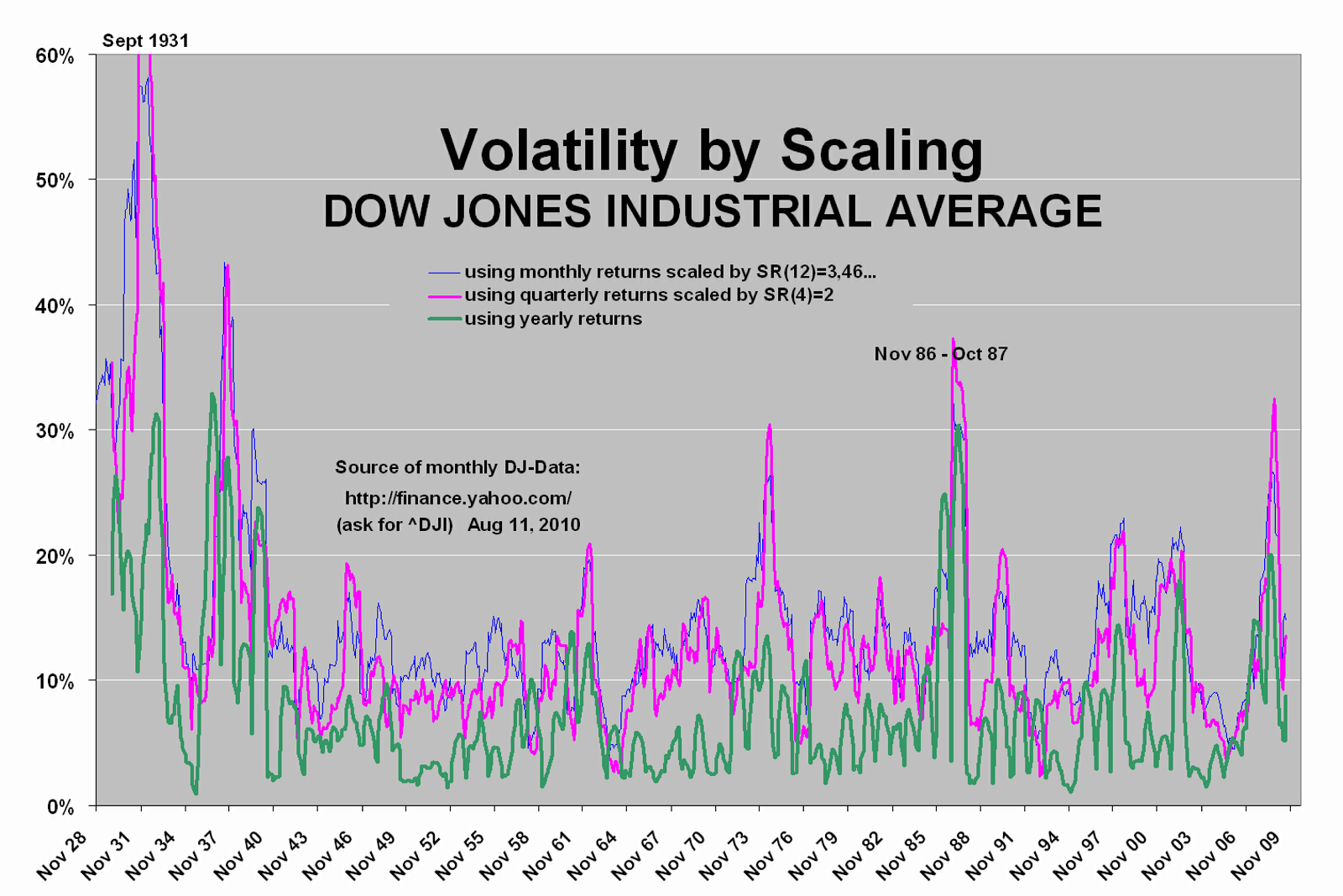 Show volatility of the Dow Jones Industrial Average Index since 1928, impact of the 30th, of 1987. Proof that volatility can be and often is volatile itself. Computation: Standard deviation of monthly and quarterly returns scaled by square root of 12 or of 4 respectively. Standard deviation of yearly returns unscaled. Show that volatility scaling doesn't work for the Dow Jones Industrial Average Index from 1928 until 2010. Scaling by square root of 250 of daily returns may even lead to more errors presumably.